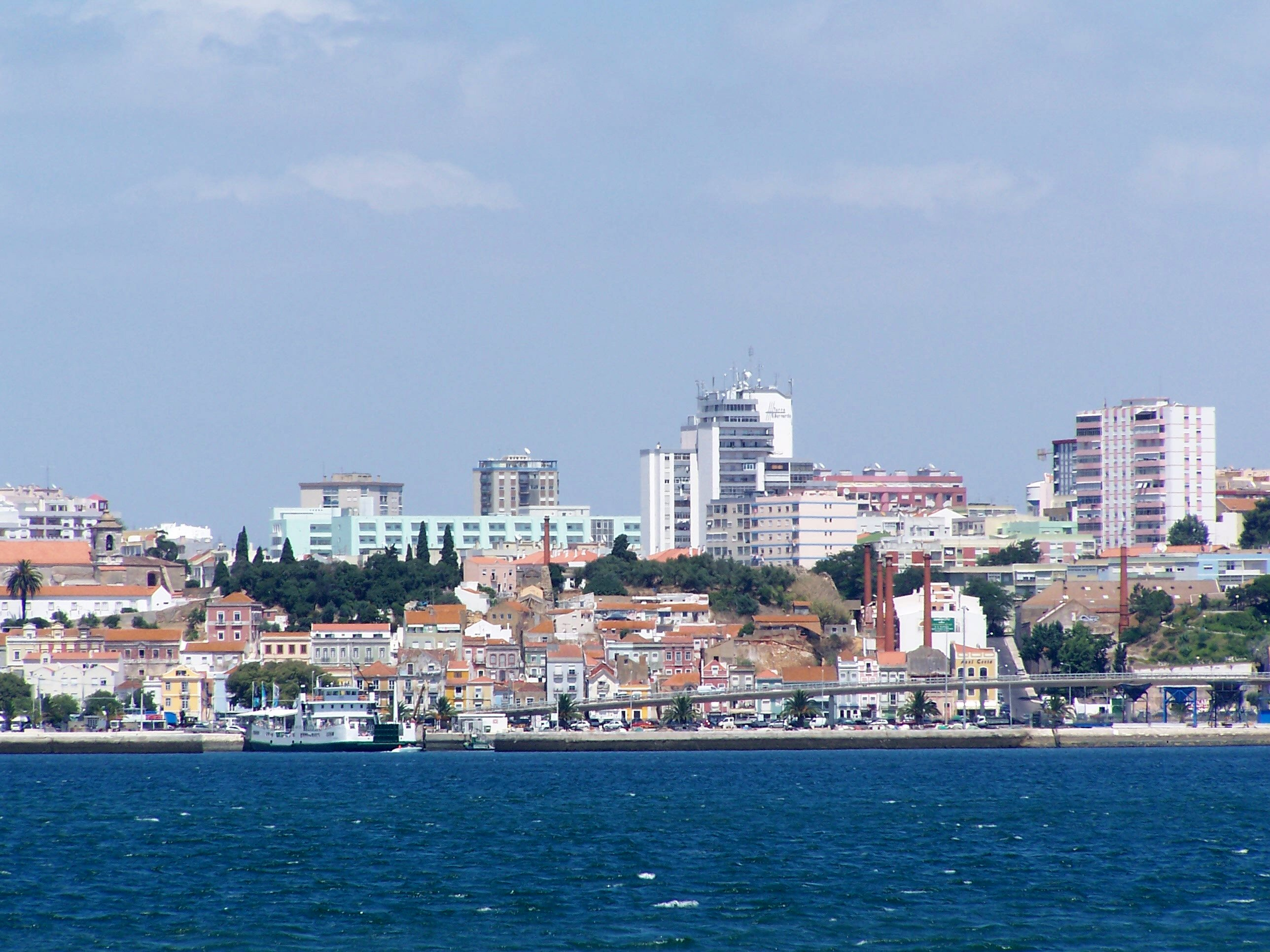 Setúbal is a city and a municipality in Portugal with a total area of 172 km² and a total population of 118,696 inhabitants in the municipality. The city proper has 89,303 inhabitants. The municipality is composed of 8 parishes, and is located in the district of Setúbal.